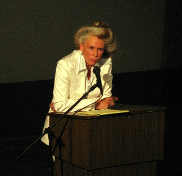 Catharine MacKinnon speaking at the Brattle Theatre, Cambridge, MA. 8 May, 2006.